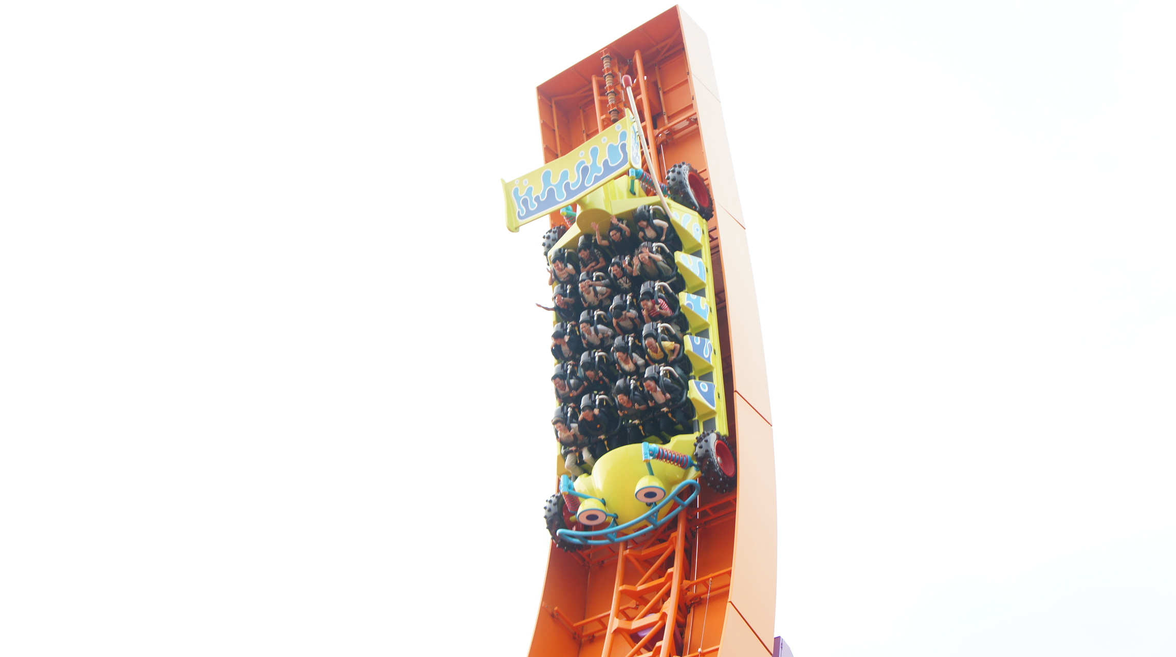 RC Racer